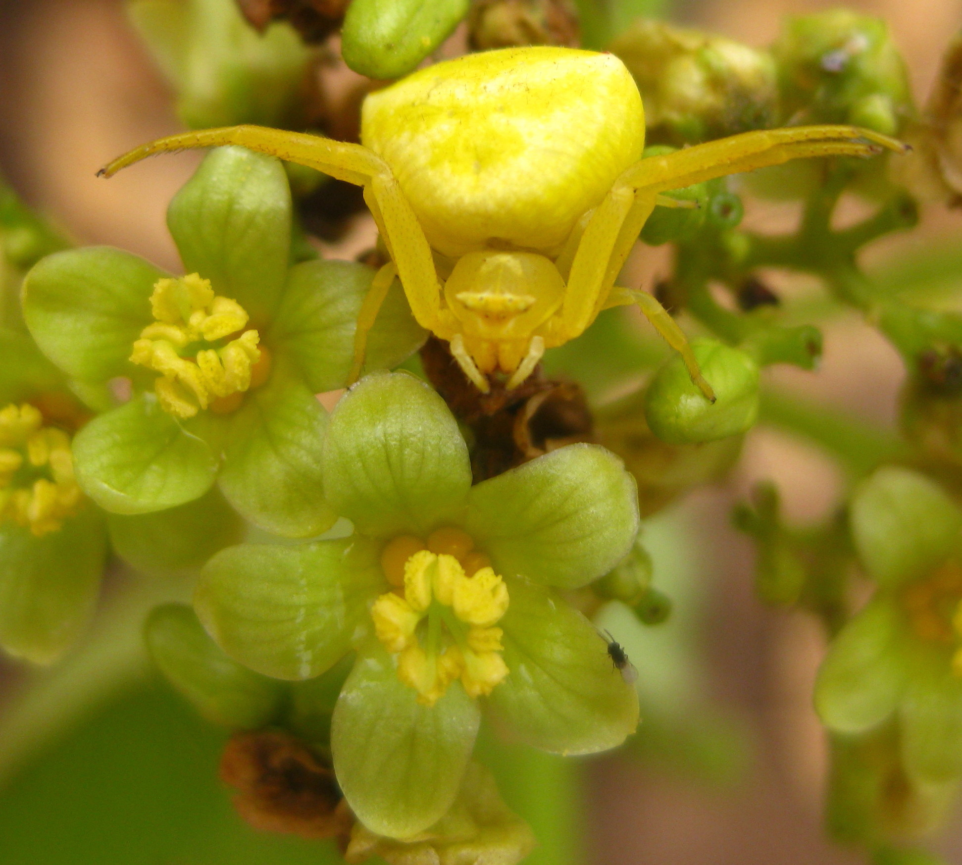 The yellow spider looks a bit like the yellowish flowers of Jatropha scaposa. It waits patiently and catches pollinating insects.